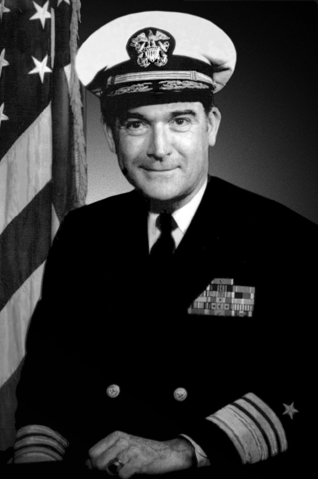 Admiral Worth Bagley